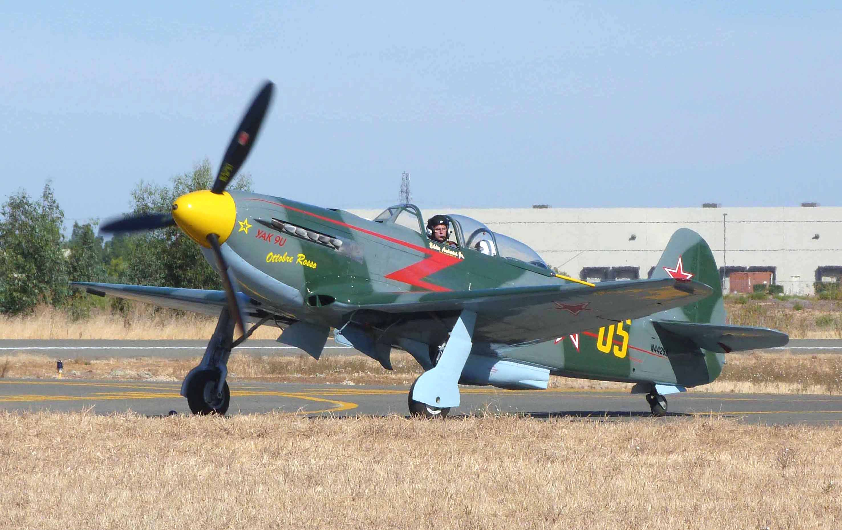 Nut Tree Airport October 2012.